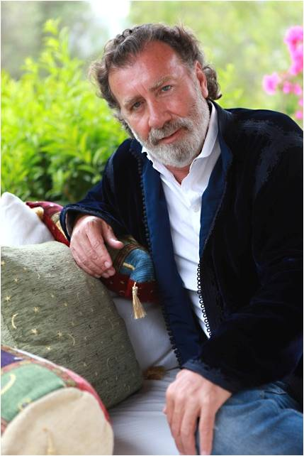 Pino Sagliocco 2012